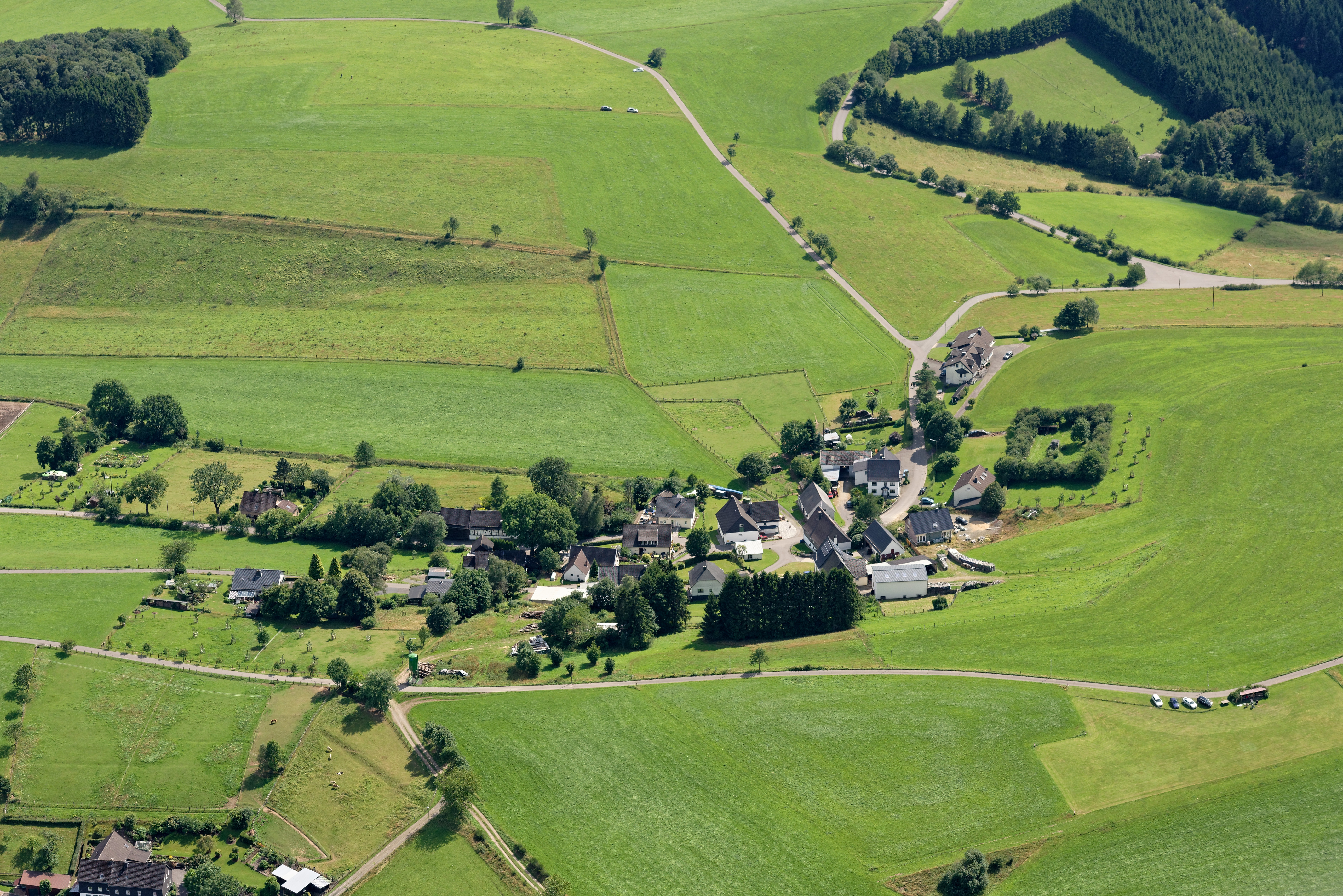 The making of this document was supported by the Community-Budget of Wikimedia Germany. Bergneustadt-Attenbach